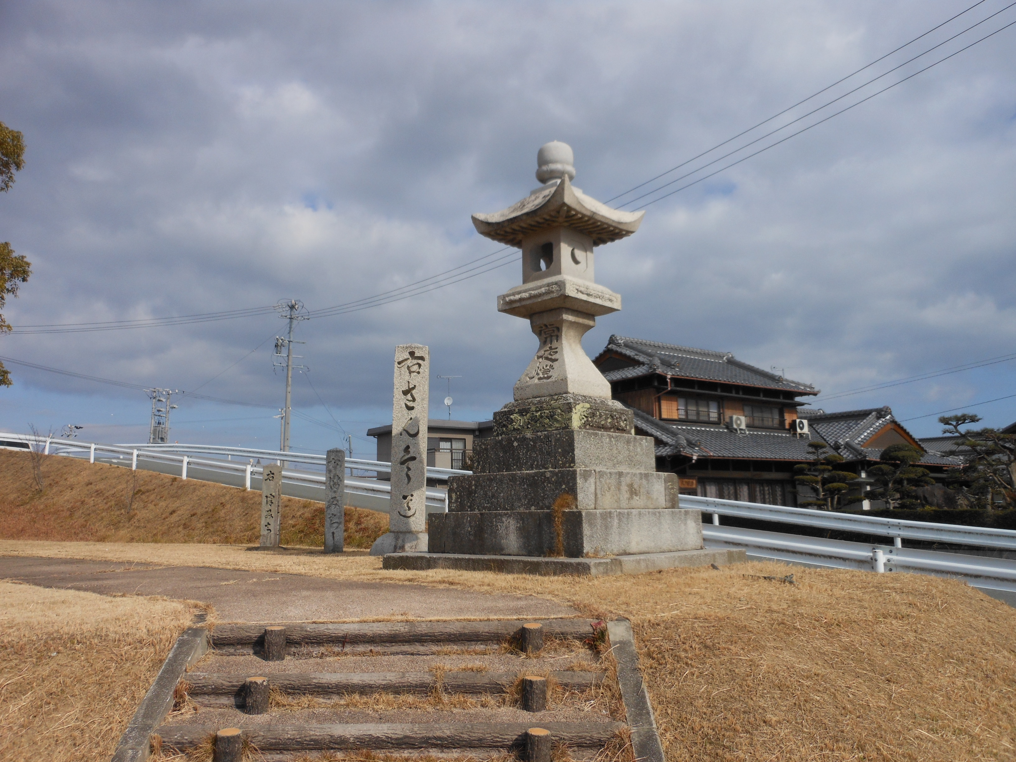 This is a stone lantern in Karasu-cho, Tsu, Mie, Japan.